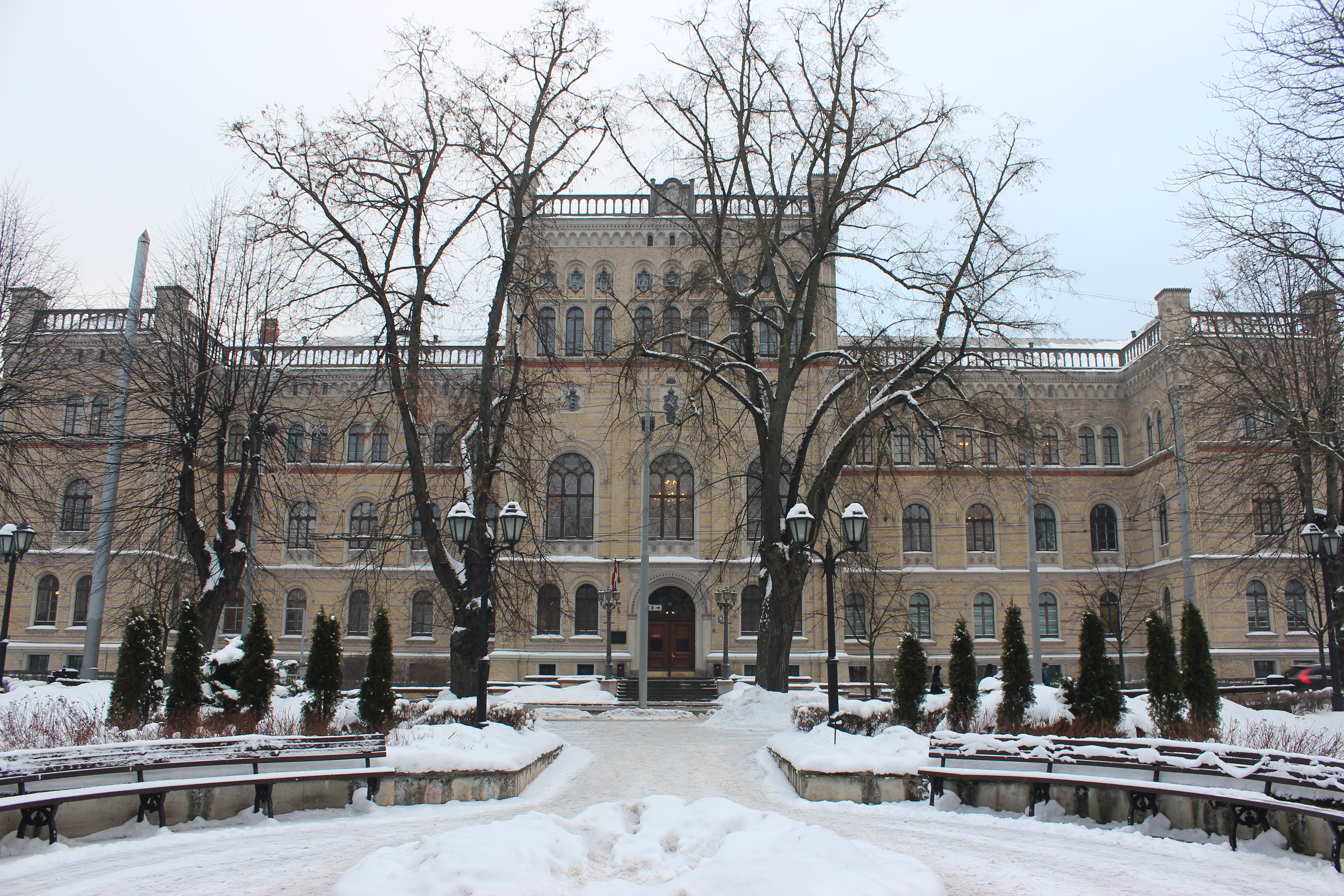 University of Latvia